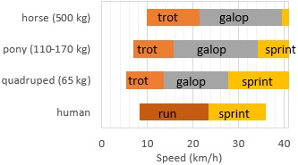 Comparison of endurance running performance of humans and quadrupeds. Based on : Dennis Bramble, Daniel Lieberman (2004): 'Endurance running and the evolution of Homo' in Nature, Volume 432, p. 345-352